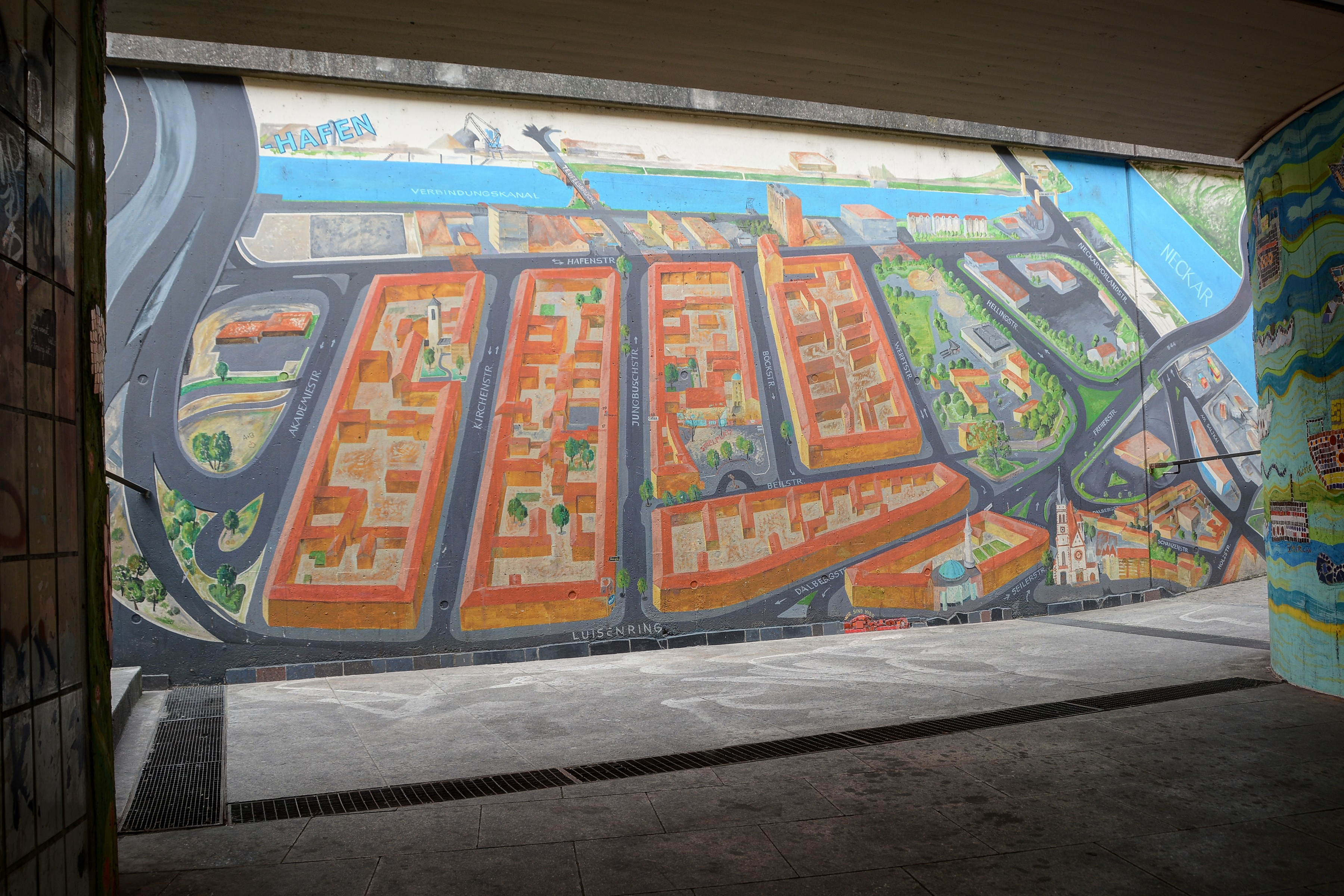 Mannheim, Germany, mural in the Dalberg subway showing Mannheim-Jungbusch - destroyed in 2015 by sprayers